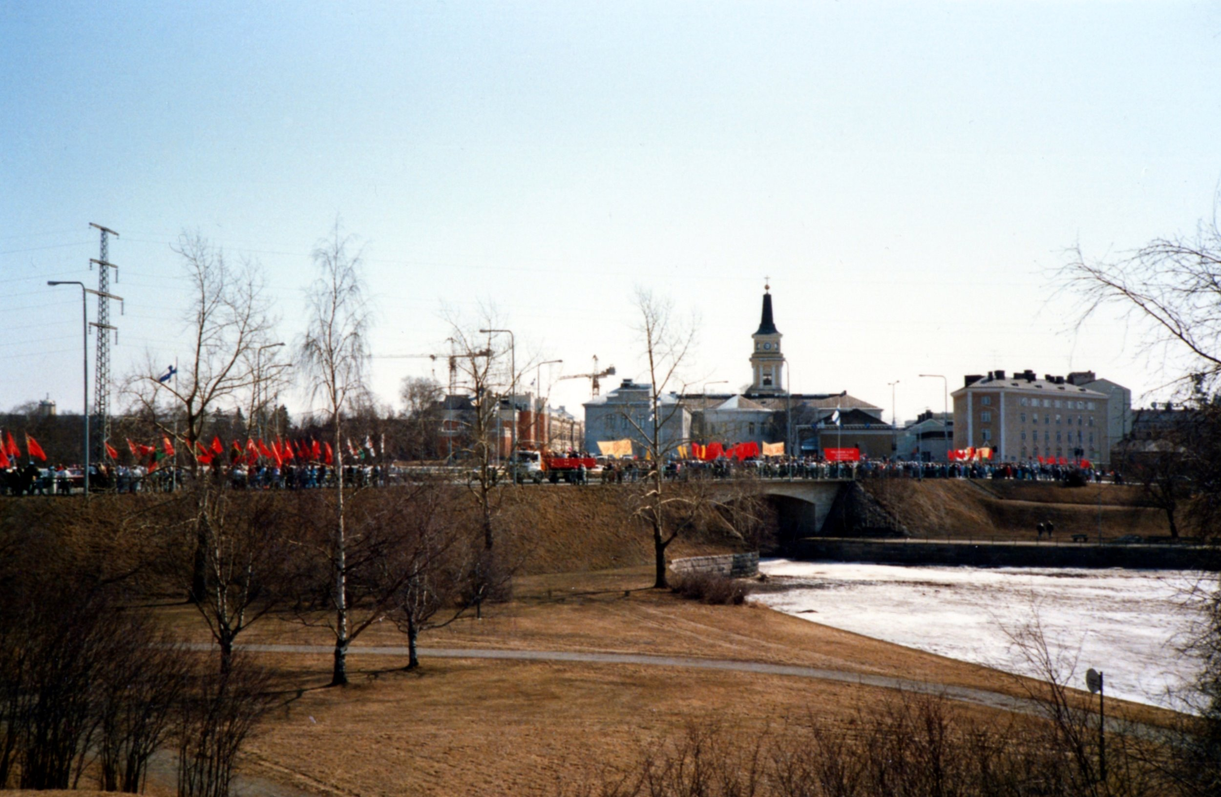 May Day demonstration march in Oulu in 1987.